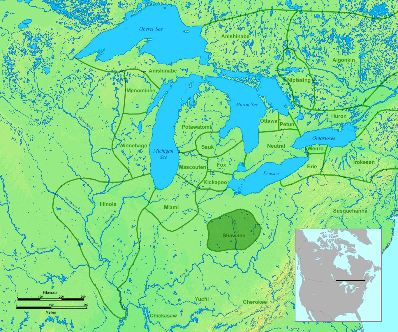 Tribal territory of Nipissing about 1650